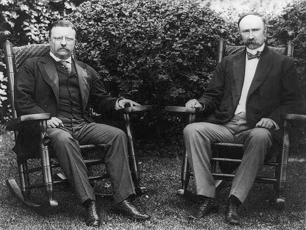 Theodore Roosevelt, 26th US President, full length, seated in chair on lawn, facing slightly right, with Senator Charles Warren Fairbanks, his vice president at Sagamore Hill, Oyster Bay, N.Y.